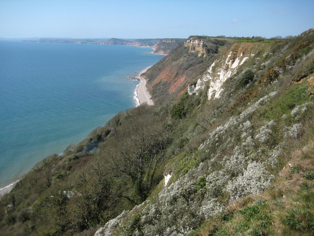 Coast viewed from Berry Camp. View to the west along the east Devon coast from the coast path near the hill fort of Berry Camp.